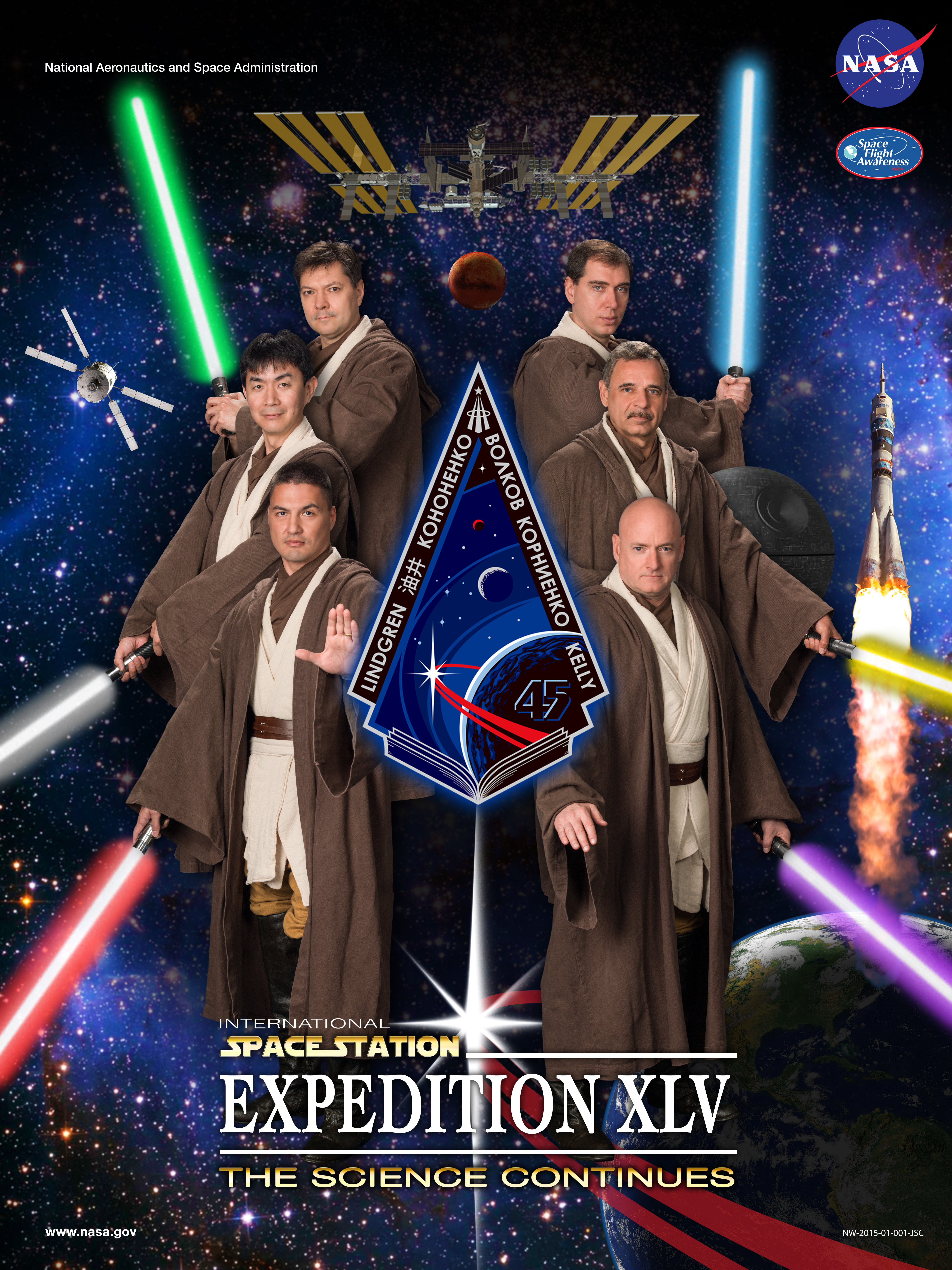 The Expedition 45 crew poster pays tribute to the epic space opera film Return of the Jedi.